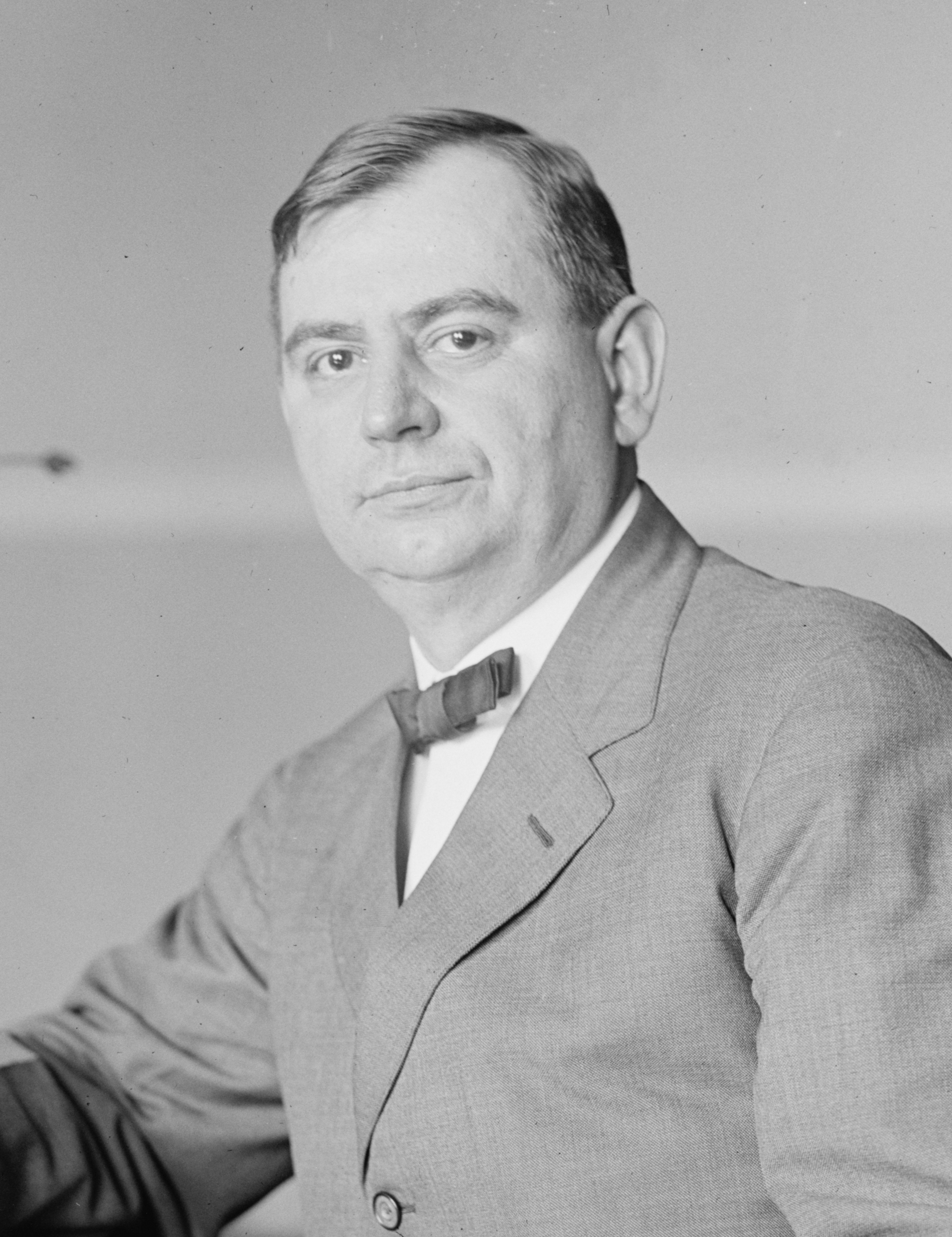 Howard M. Gore, 9/17/23